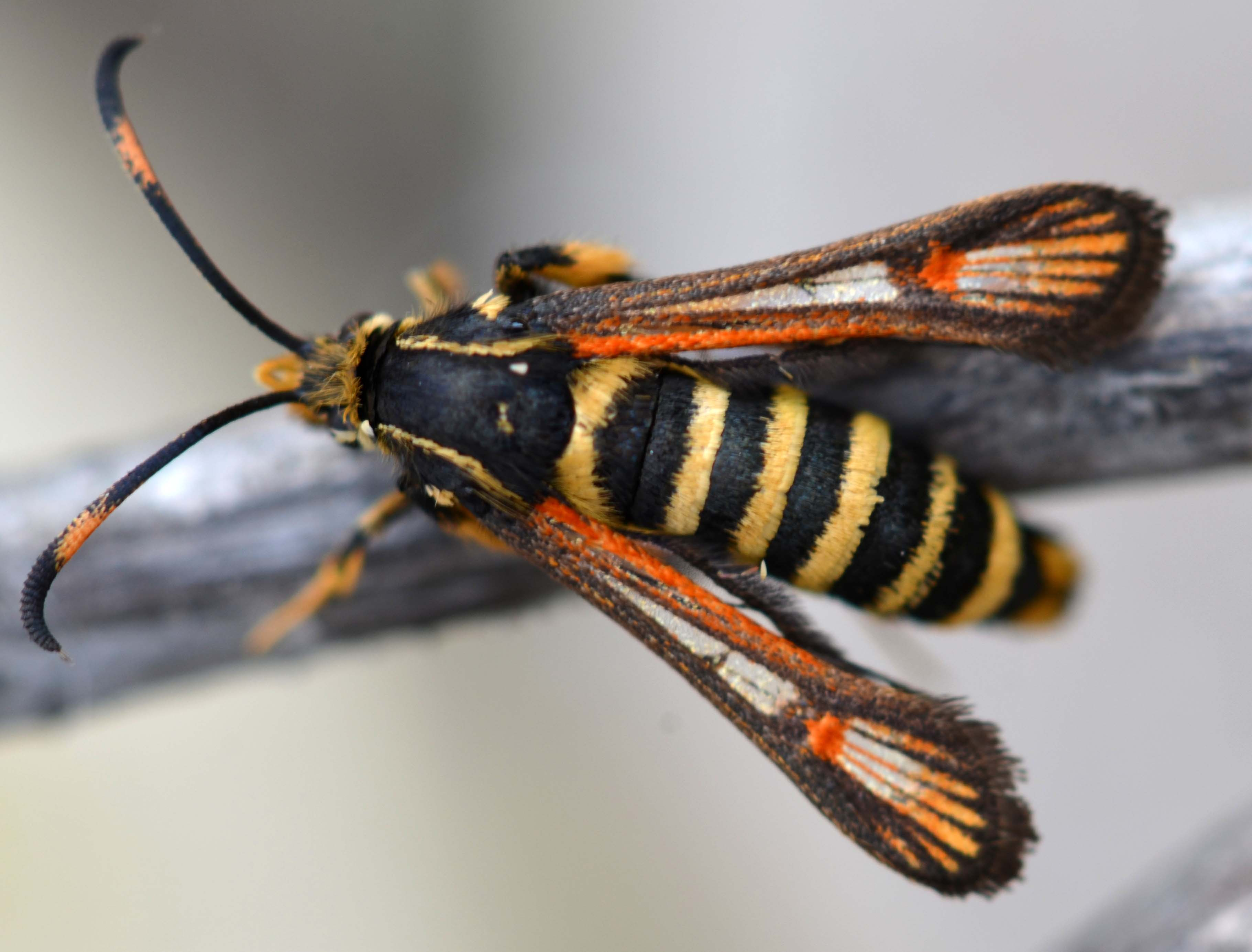 Bembecia ichneumoniformis ([Denis & Schiffermüller], 1775), (or closely related species?). photographed at the top of beach and near the cliff in Morgat (Finistère, Britain, west of France).